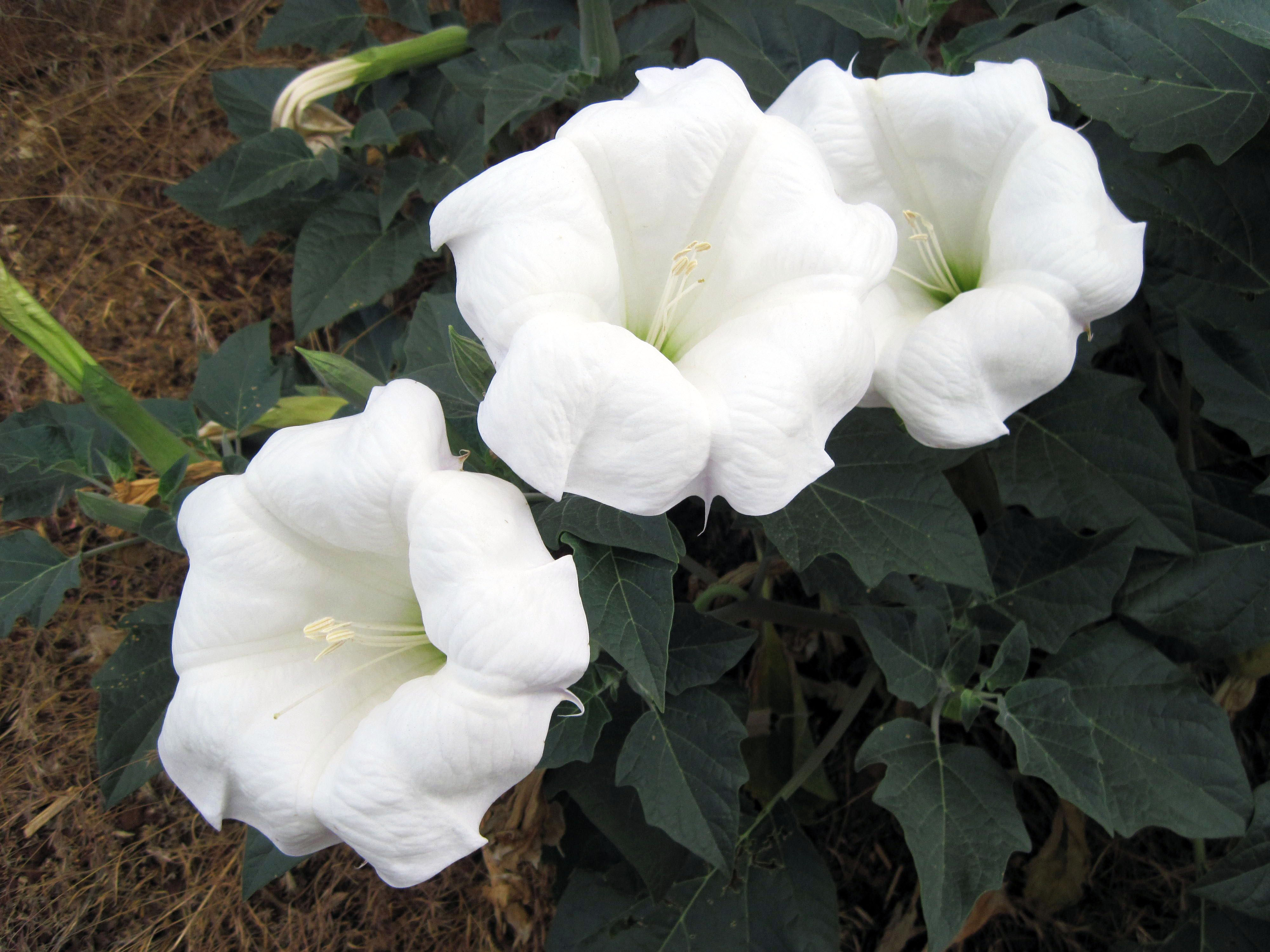 The sweetly fragrant trumpet-shaped flowers of the sacred datura (Datura wrightii) can be seen blooming in the summer months throughout the well-drained open soils of the park. The datura is one of many night-blooming flowers in Zion, with petals that slowly unfurl at twilight. This beautiful flower should be viewed but not handled, as all parts of this plant are poisonous. NPS Photo